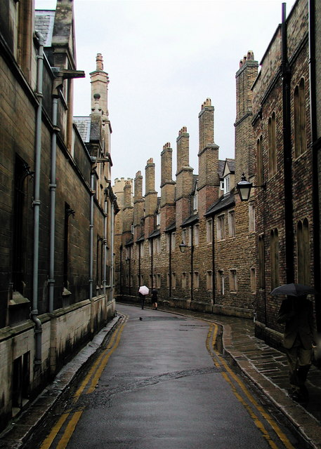 Trinity Lane, Cambridge.